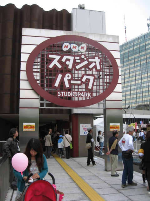 NHK Studio Park from NHK Broadcasting center Tokyo Shibuya.